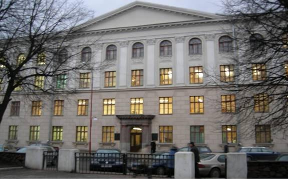 Building of History departament of Belarusian State University. Minsk, st. Krasnoarmeyskaya 6. Built in 1906, partially rebuilt in late 1940s.